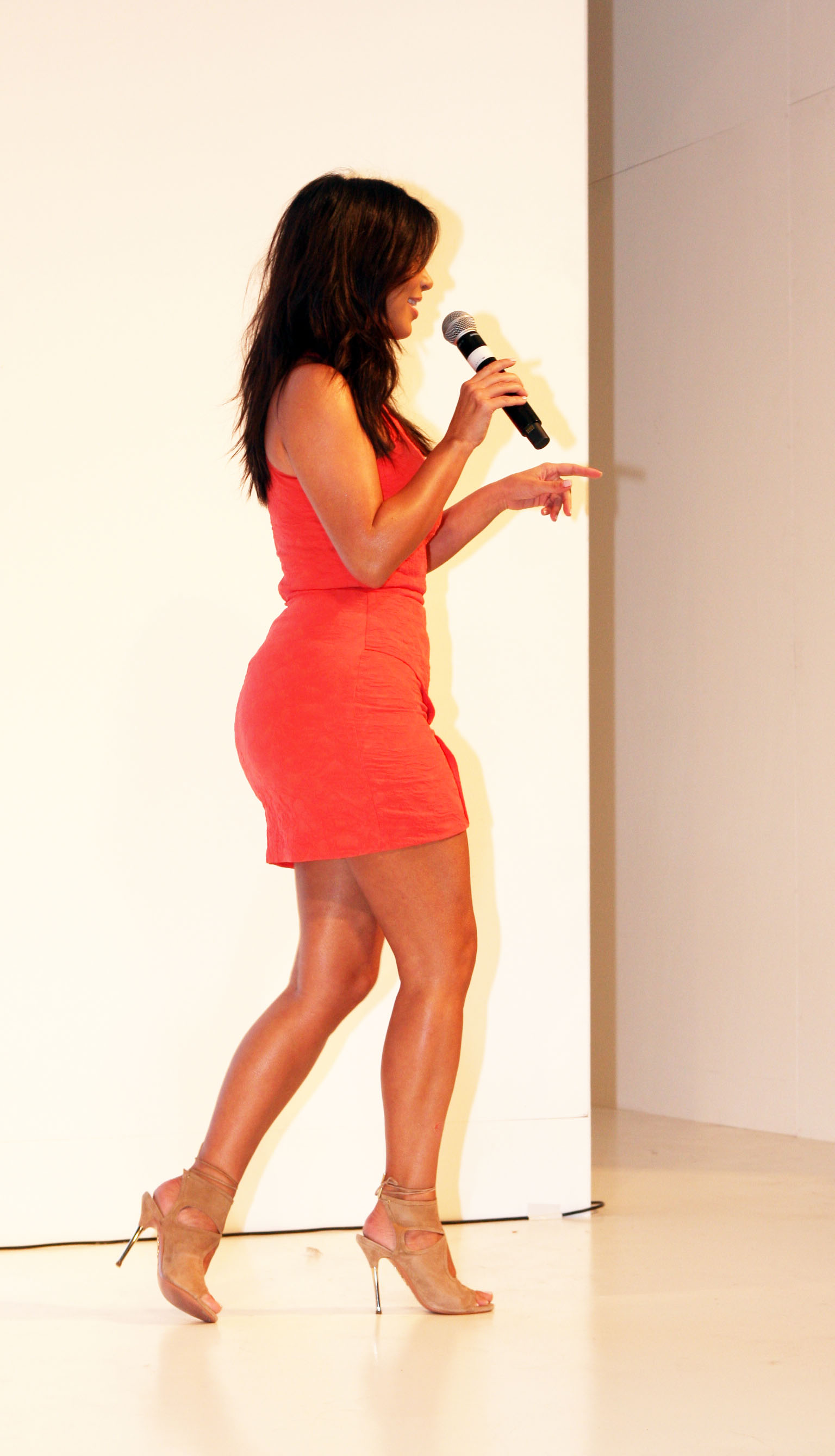 Kim Kardashian West, Parramatta Westfield Sydney Australia